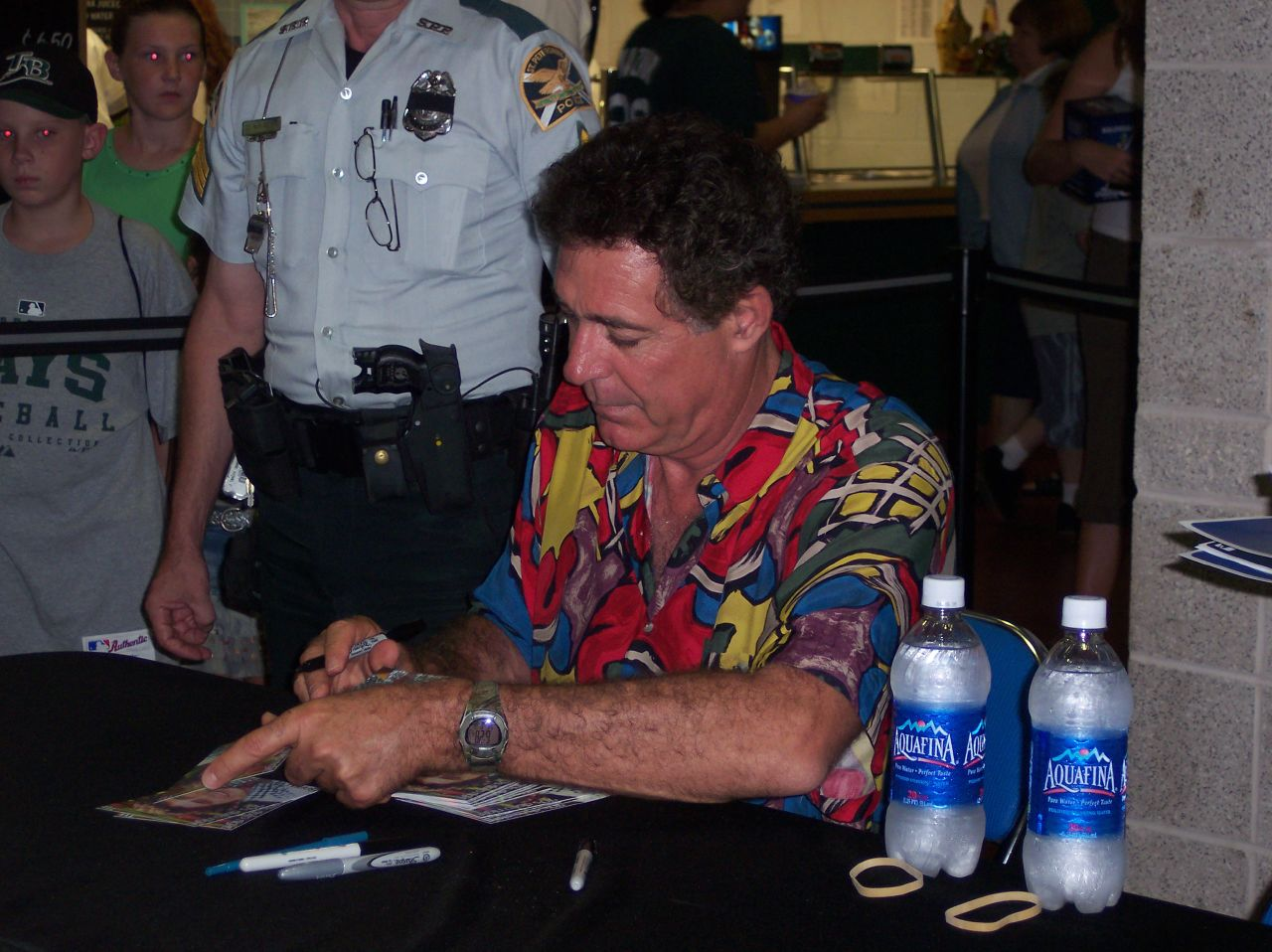 That's "Greg" from the Brady Bunch; he sang the National Anthem the night before, and threw out the first pitch! His shirt was tucked in...